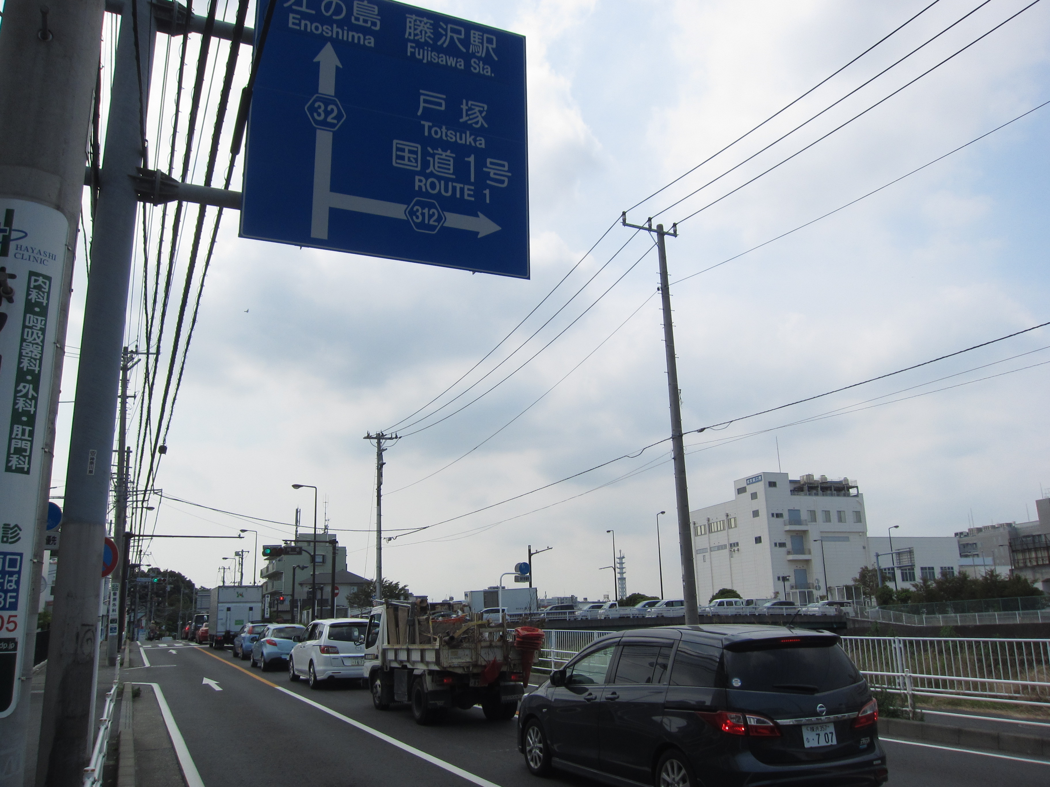 prefectural road No.32